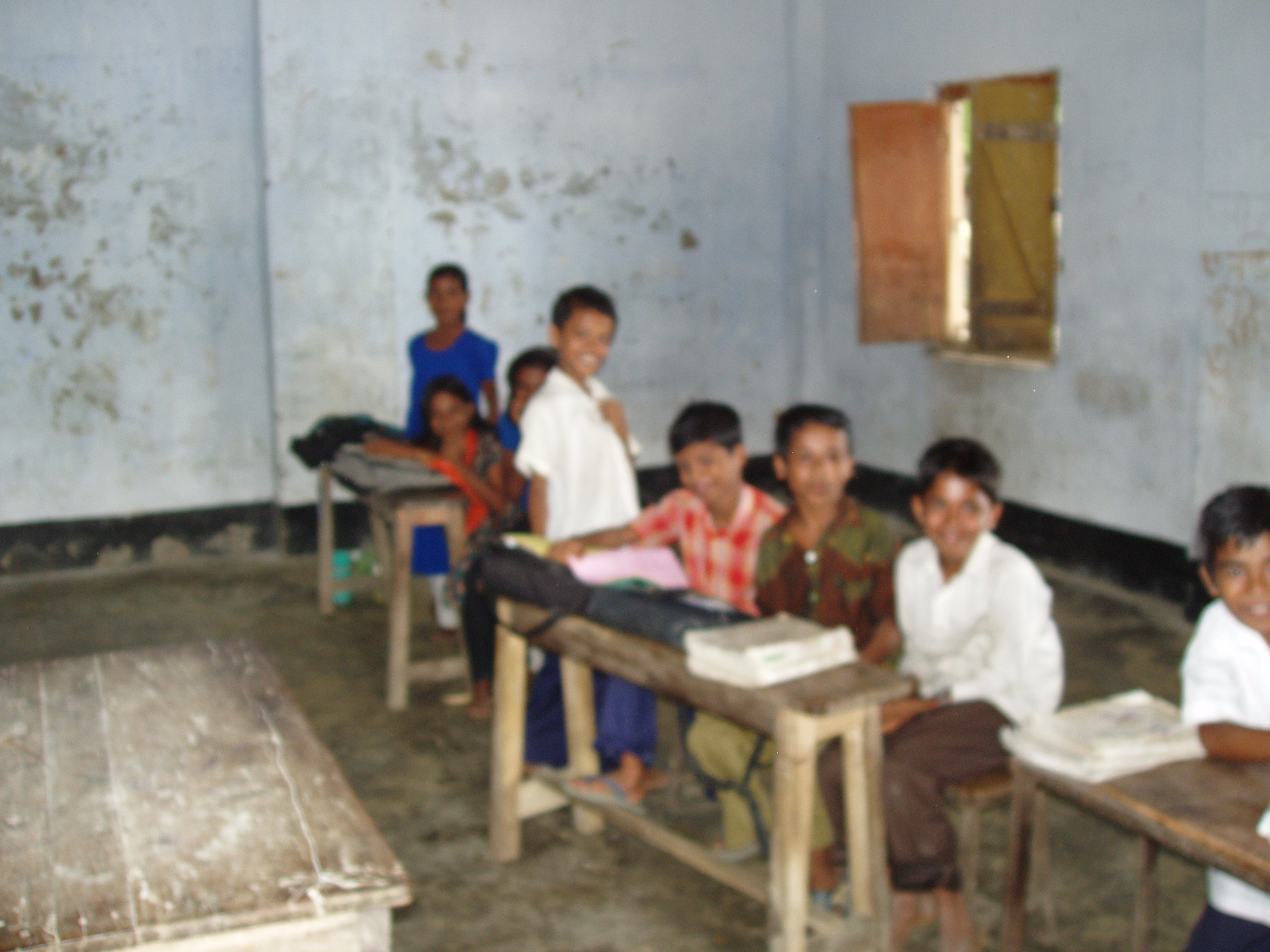 Young boys in a classroom at Taltoli Primary School